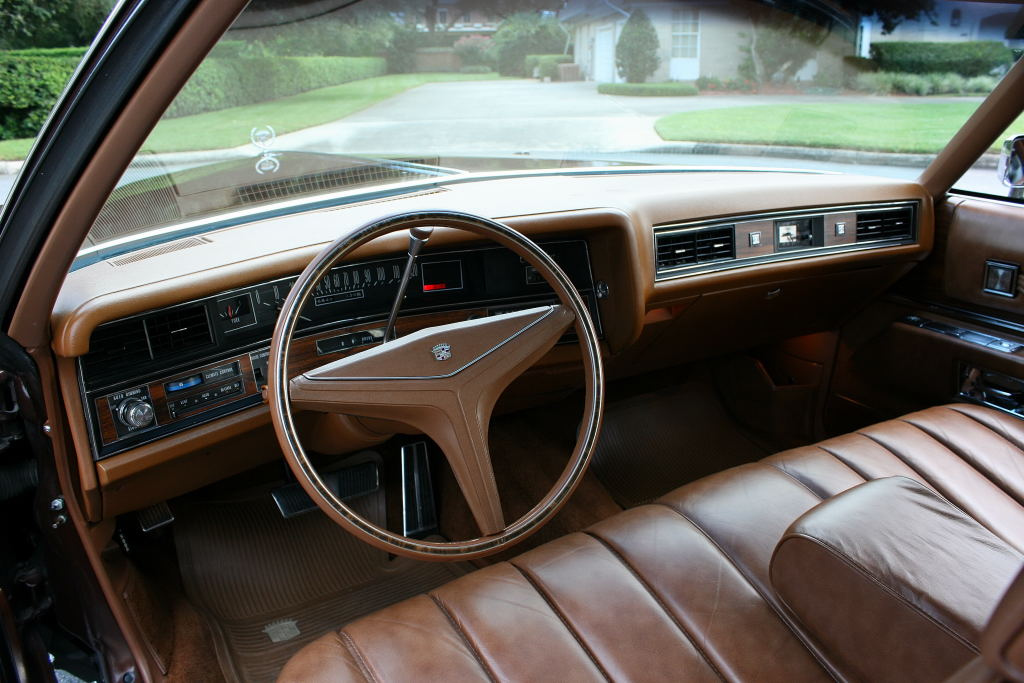 Sold new by Curry Cadillac of Bloomfield, Indiana